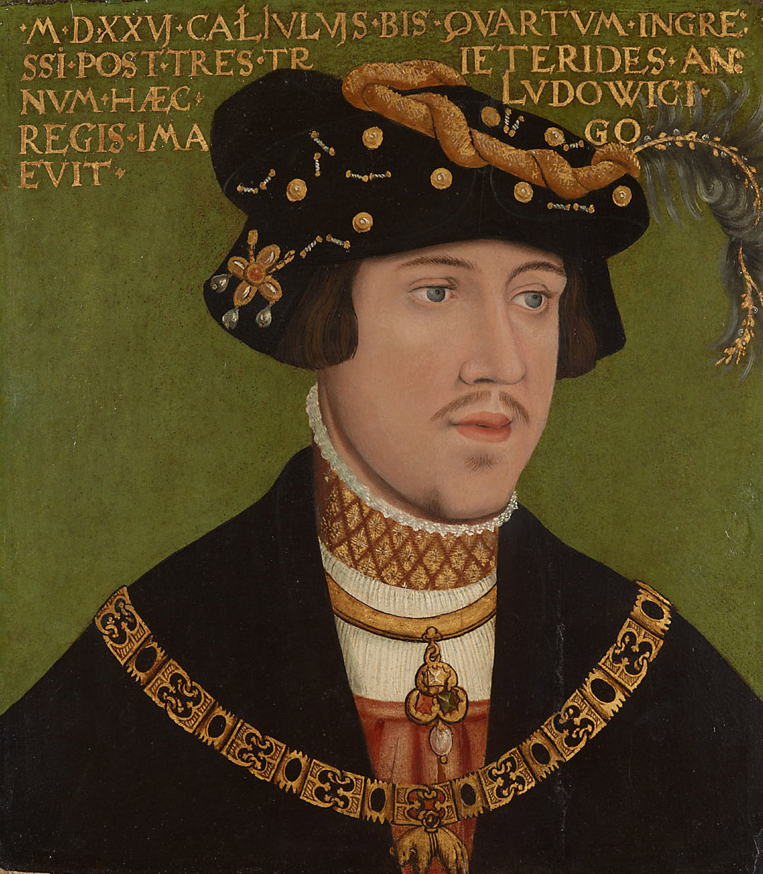 Depicted person: king Louis II of Hungary, son of Vladislaus II of Bohemia and Hungary